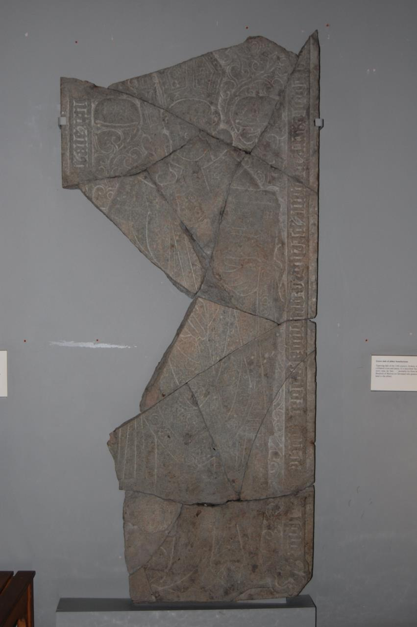 Tombstone of Thomas Spofford. From St. Mary's Abbey, York. In the Yorkshire Museum (YORYM : 2001.13018)